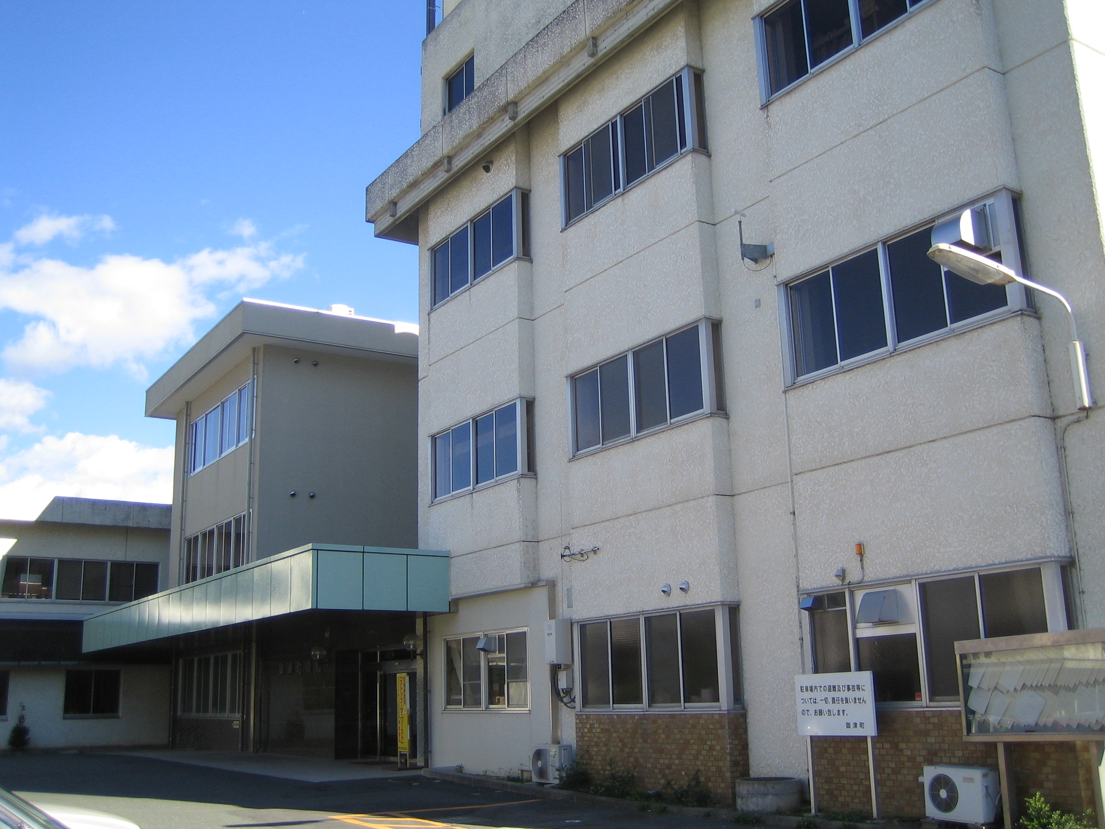 愛知県宝飯郡御津町の御津町役場。現在の豊川市役所御津支所。 Mito Town Office (御津町役場), in Mito, Aichi, Japan